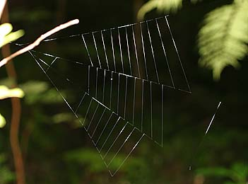 Web of Hyptiotes affinis from Okinawa (Japan).